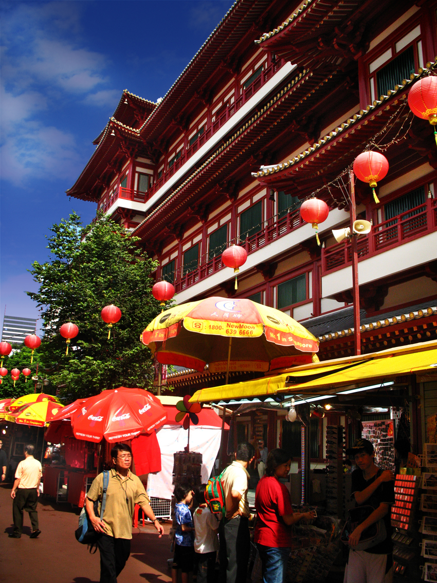 Located next to the famous Buddha Tooth Relic Temple, the street was once known as "Street of the Dead" as it acted as a hospice for poor Chinese immigrants who are terminally ill or dying. They also provide a place for singles who had no one to care for them. Activities associated with the dead like selling of coffins, joss sticks, candles, funeral clothes and appliances as well as paper models and luxury items for the next world, were later demolished in 1961 and make way for the Chinatown Complex, which was built in 1972. Next to it stand the new Buddha Tooth Relic Temple.